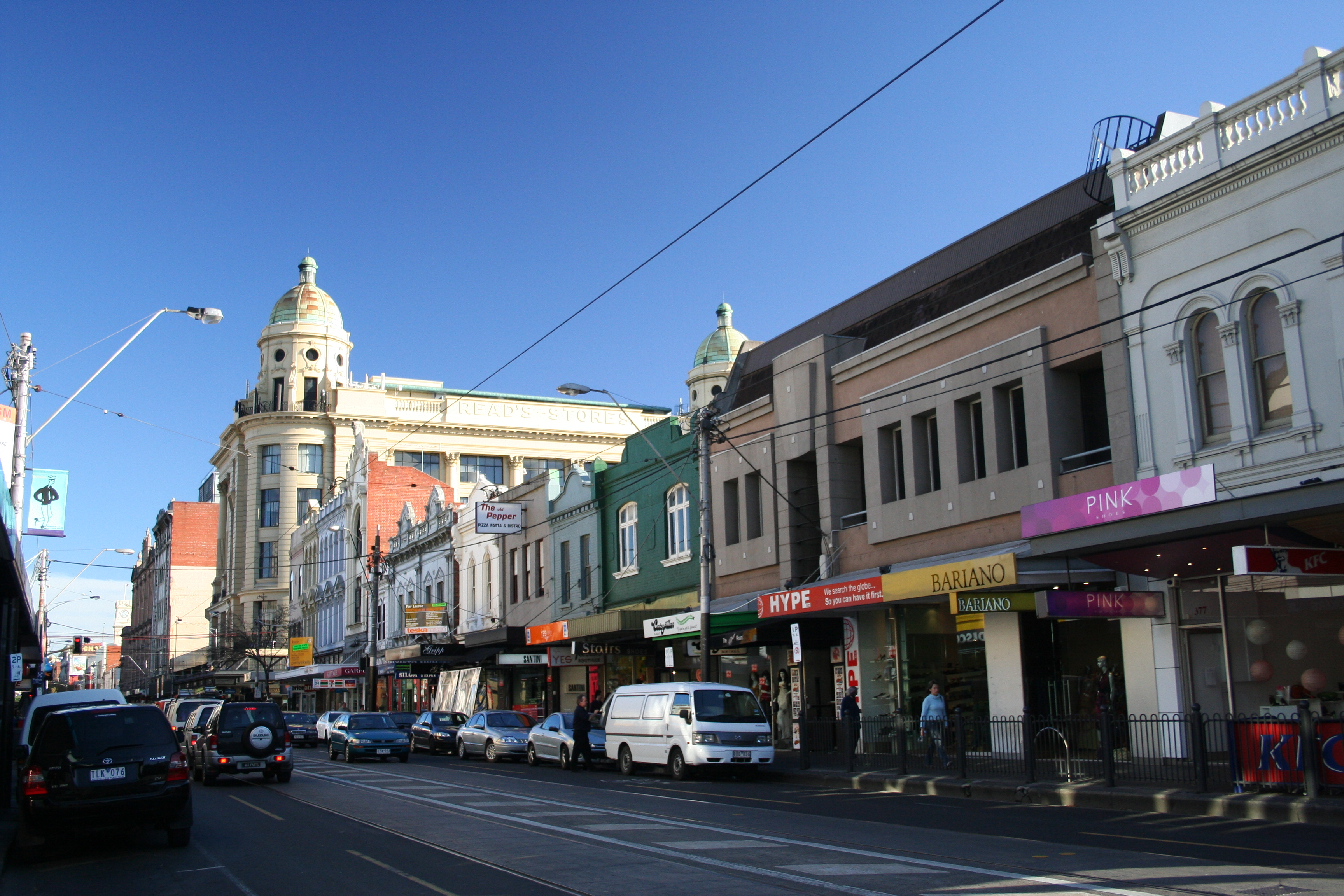 Chapel Street, Prahran Victoria, Australia, with the Read's Stores building in the background